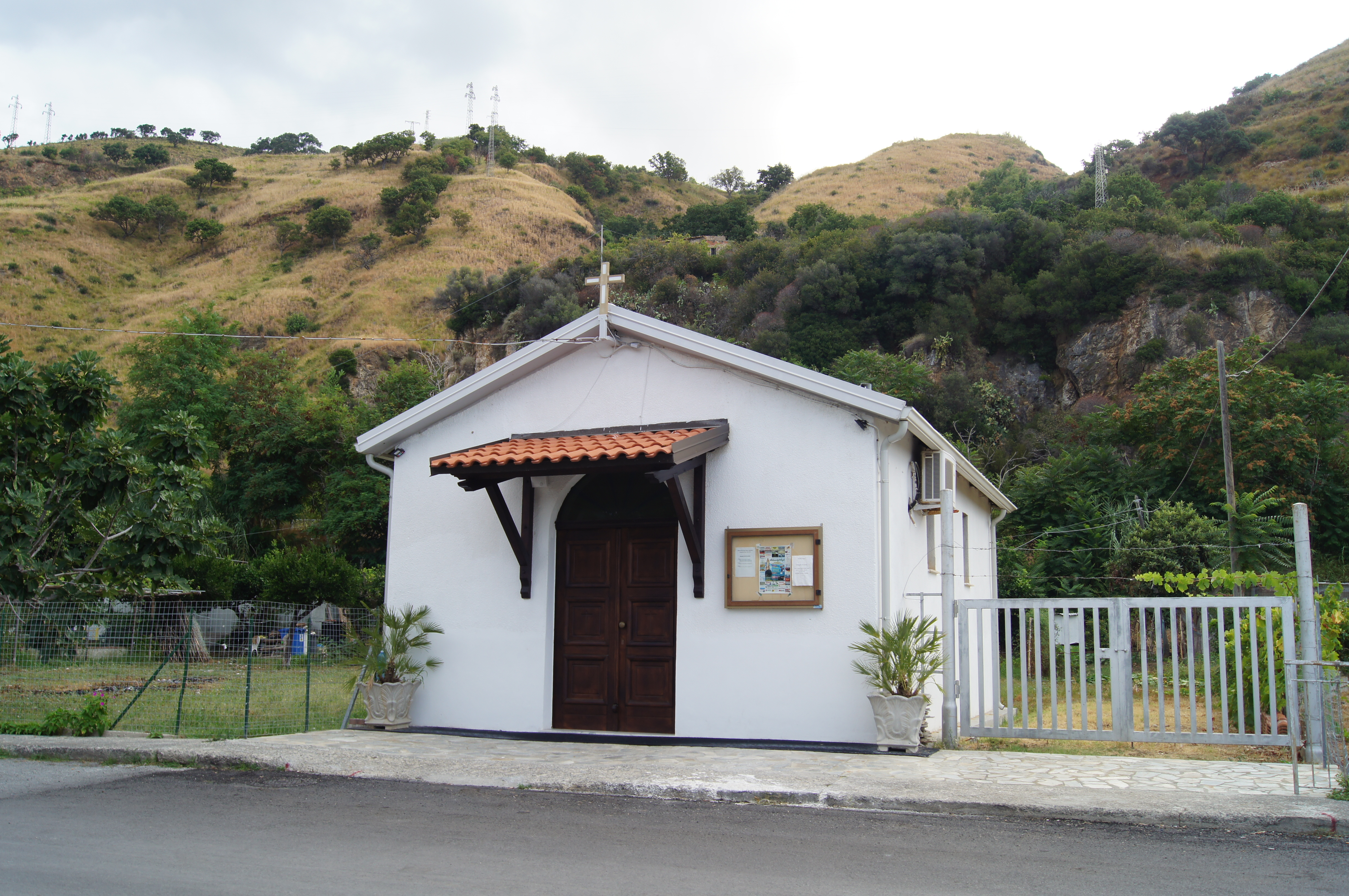 the Church of Our Lady of the Angels in Coreca after restiling